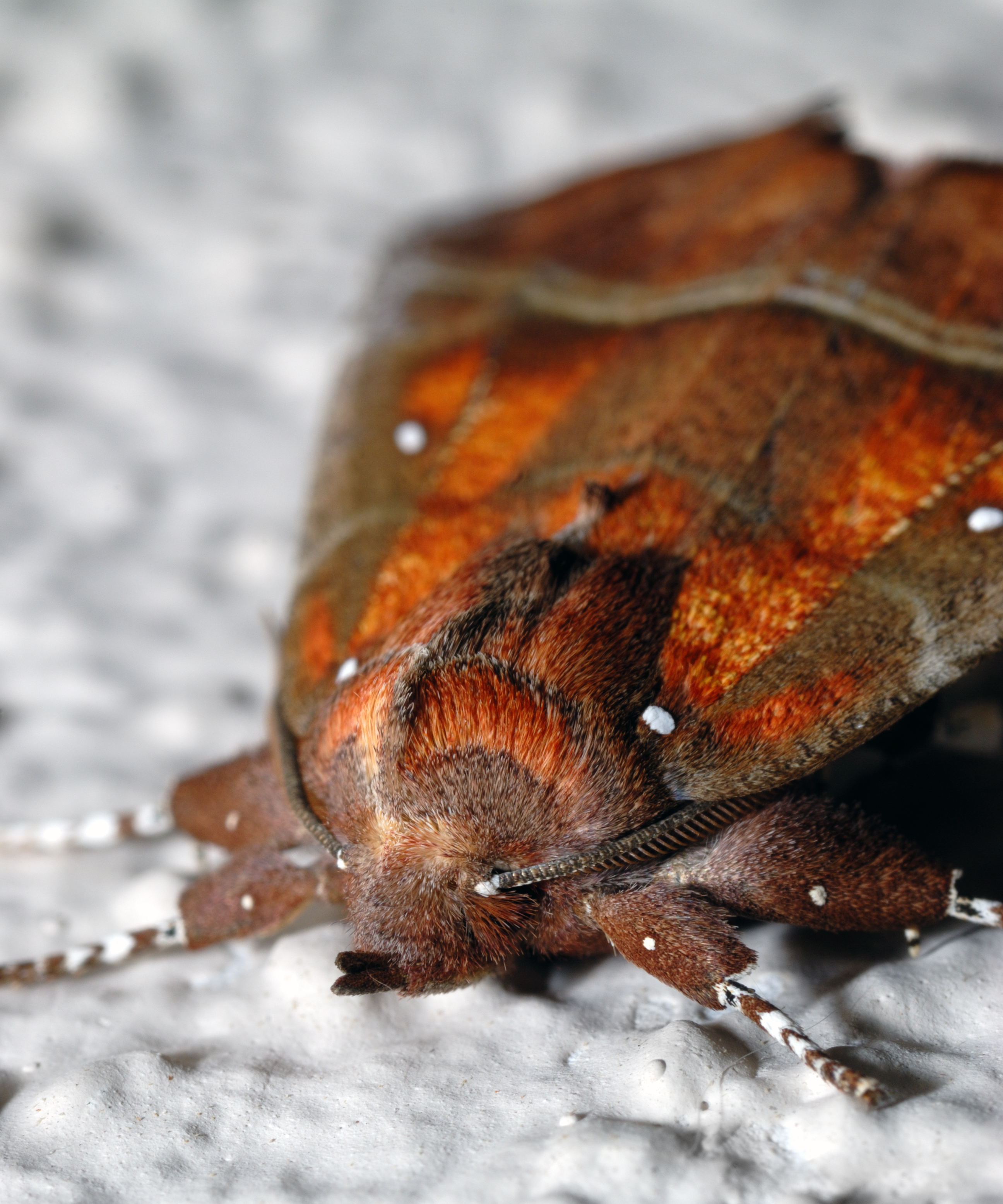 Herald Moth (Scoliopteryx libatrix)